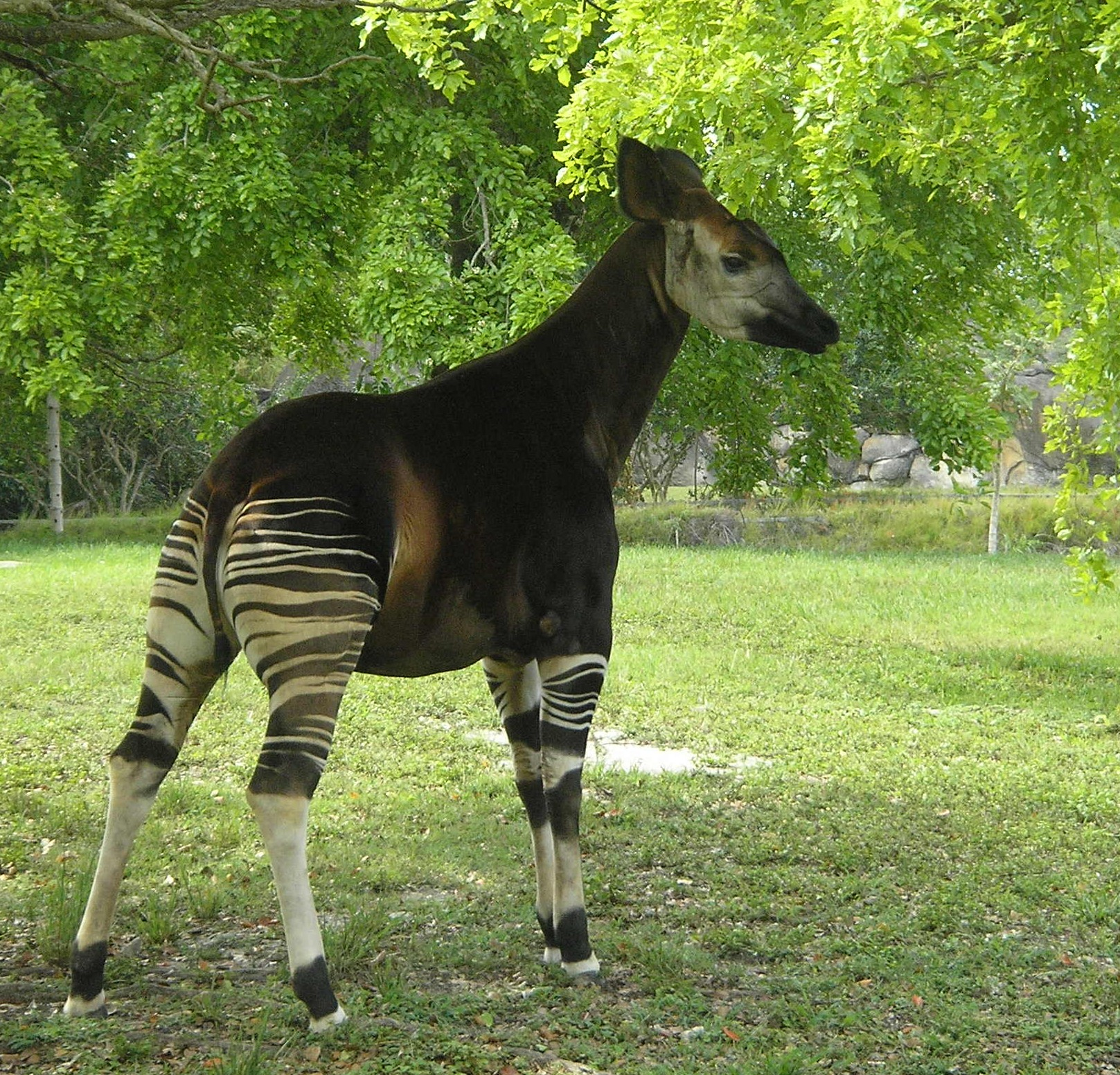 Miami Metro Zoo